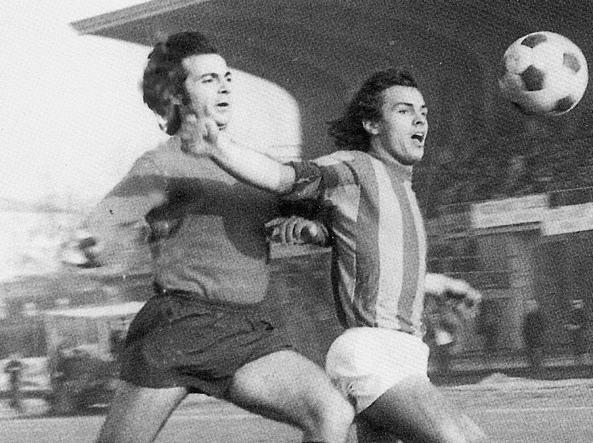 Italian footballer Antonio Cabrini (right) in action with U.S. Cremonese in the first half of the 1970s.